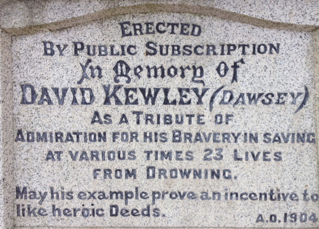 Inscription on the memorial to David "Dawsey" Kewley, Douglas Isle of Man